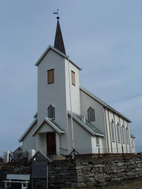 Røst Church, church in Røst, NorwayNorsk bokmål: Røst kirke